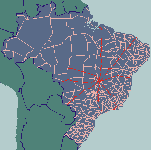 Map of radial highways in Brasil